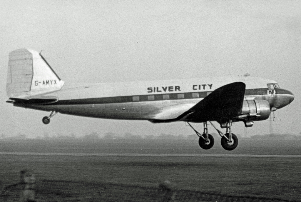 Douglas C-47B Dakota G-AMYX of Silver City Airways landing at Manchester (Ringway) Airport in 1954